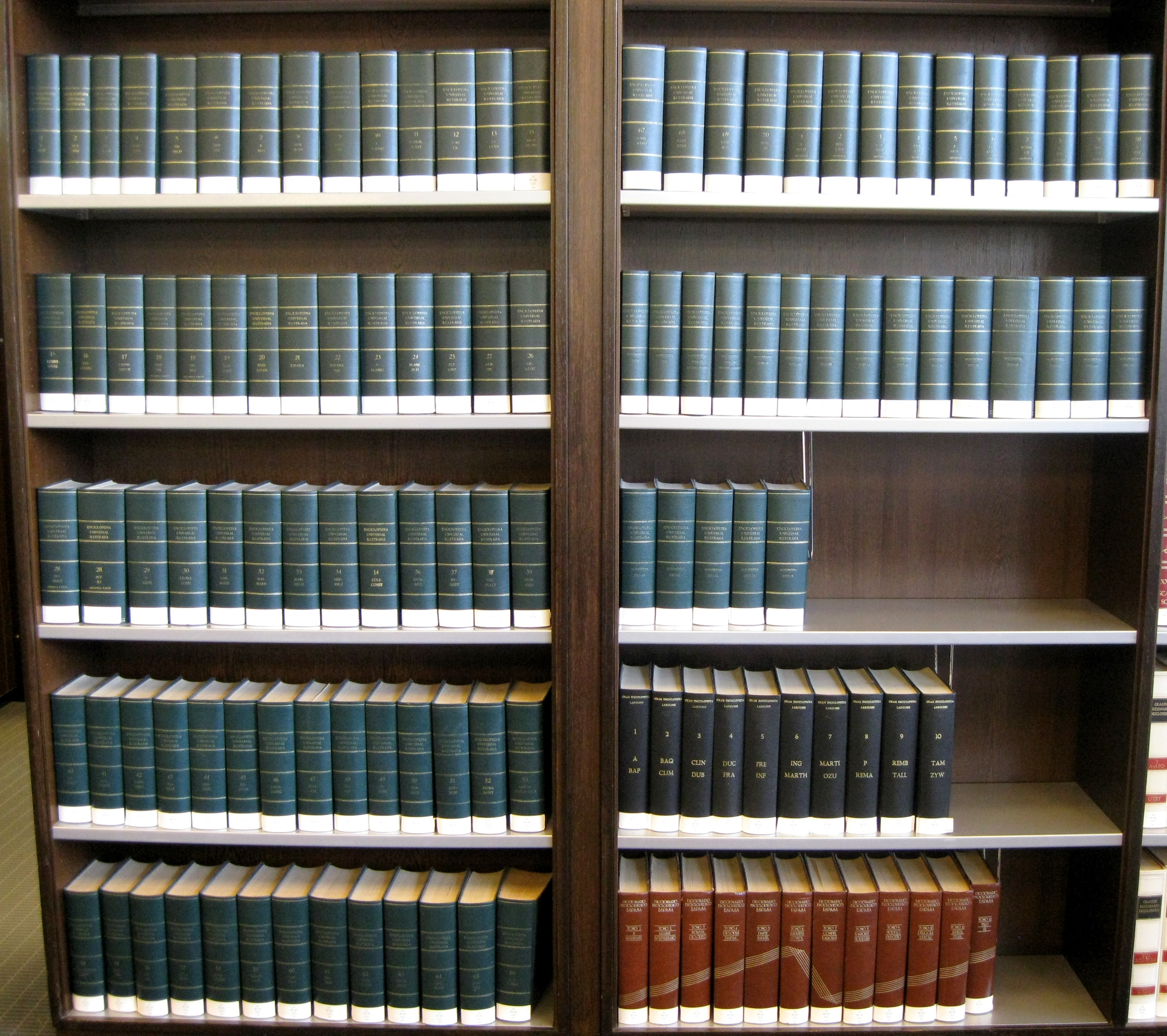 University library of Nijmegen: Espasa